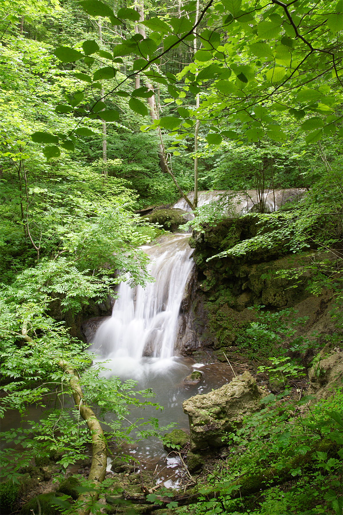 Water fall at the lower “Große Lauter”. The river’s picturesque karst spring in “Offenhausen” (Gomaringen) and the green, picturesque valley meandering 44 km through the karstic Swabian Alb are a great attraction, worldwide. Its water carries lots of soluted calcium carbonate, which is chemically precipitated again and sedimented as calcareous tuff. Precipitation at this location happens, because the drop of the river increases,in order to reach the erosional level of the Danube after ca. 5 km. Here, at the “Laufenmühle”, next to the last settlement ahead of the Danube, the relatively wide valley has been totally covered by several meters of Early Holocene calcareous tuff. In a big quarry this sediment was exhaustively exploited by 1955, the riverbed’s and the waterfall’s condition were also changed.